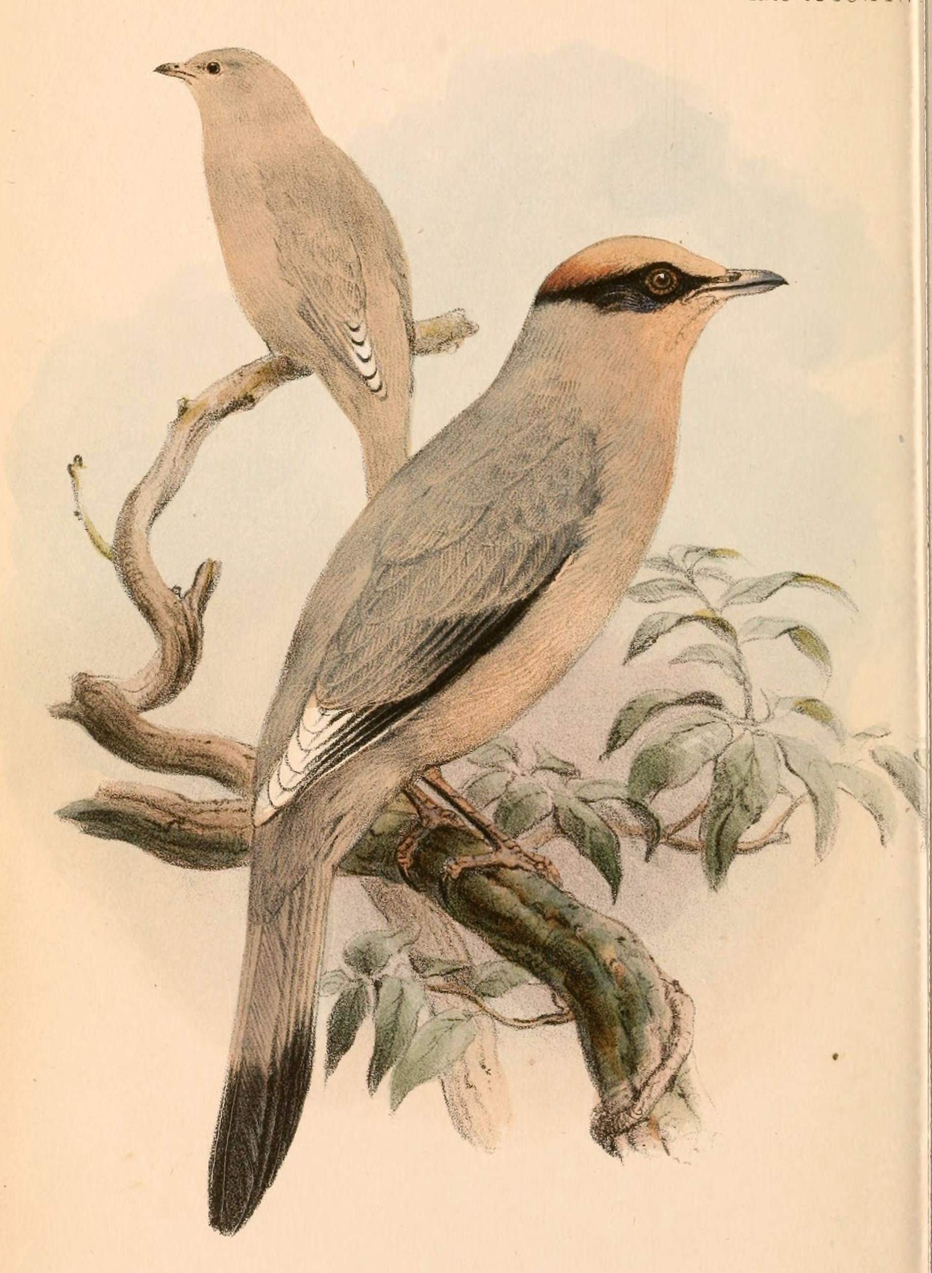 « Hypocolius ampelinus » = Hypocolius ampelinus (Grey Hypocolius)